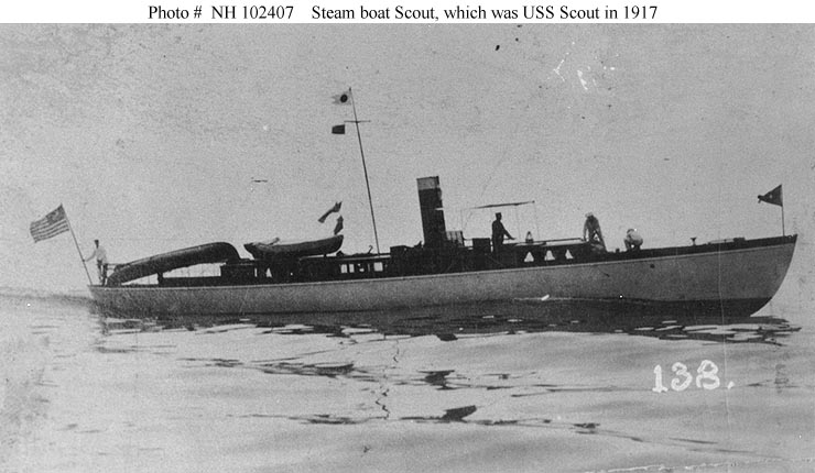 The steam boat Scout, prior to her United States Navy service as patrol boat USS Scout (SP-114)